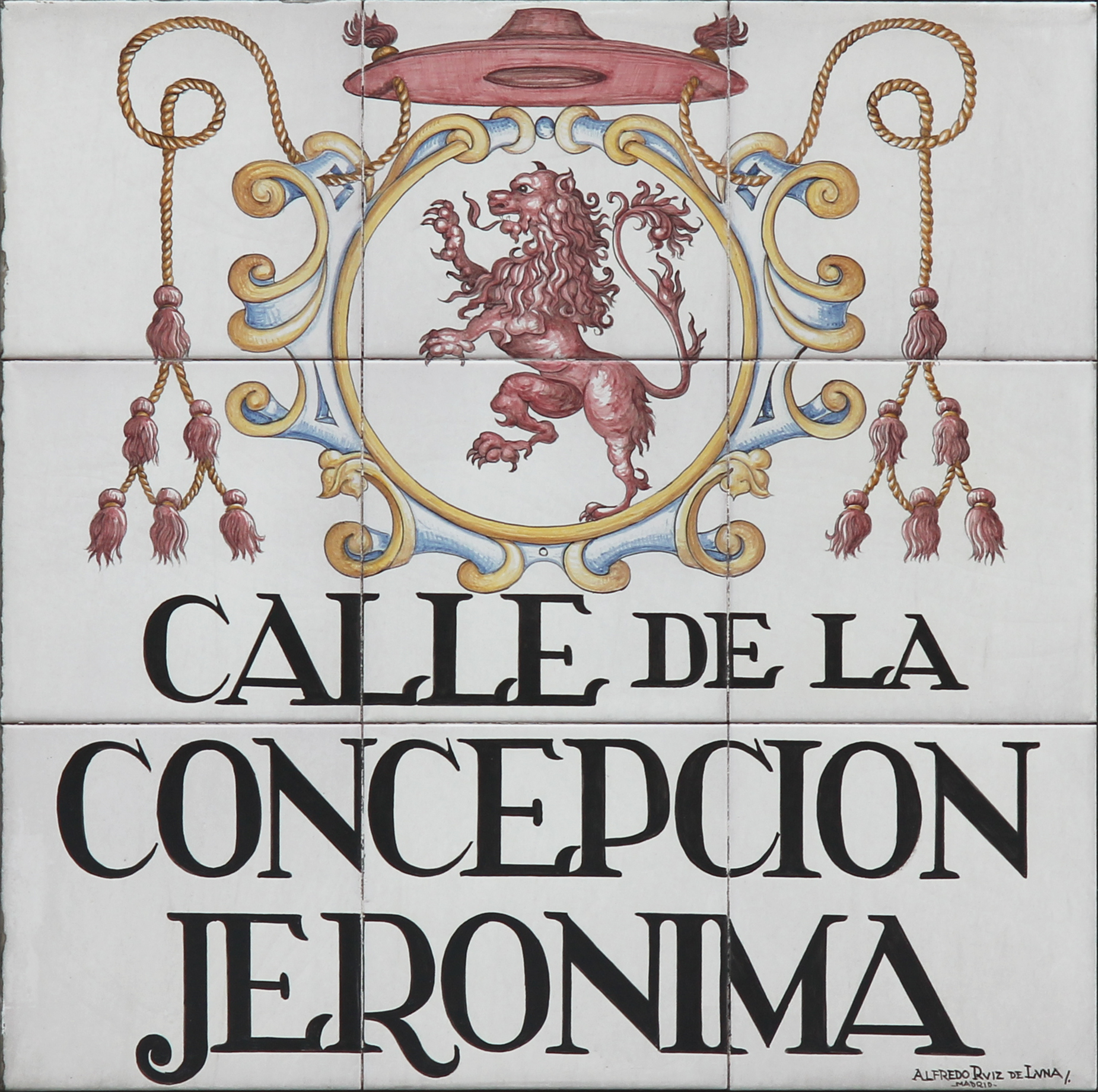 Sign of Calle de la Concepción Jerónima (street) in Madrid (Spain).